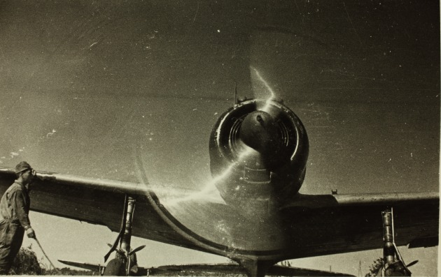 PictionID:6485498 - Catalog:01_00086160 - Title:Nakajima, Ki-43, Hayabusa 'Peregrine Falcon' Oscar 'Jim' Army Type 1 Fighter - Filename:01_00086160.TIF - Image from the Charles Daniels Photo Collection album "Seversky, Republic and P-47"----PLEASE TAG this image with any information you know about it, so that we can permanently store this data with the original image file in our Digital Asset Management System.----SOURCE INSTITUTION: San Diego Air and Space Museum Archive